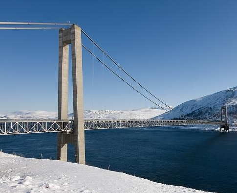 The Kvalsund Bridge is a suspension bridge in Kvalsund municipality that crosses Kvalsundet from the mainland to Kvaløya in Finnmark county, Norway